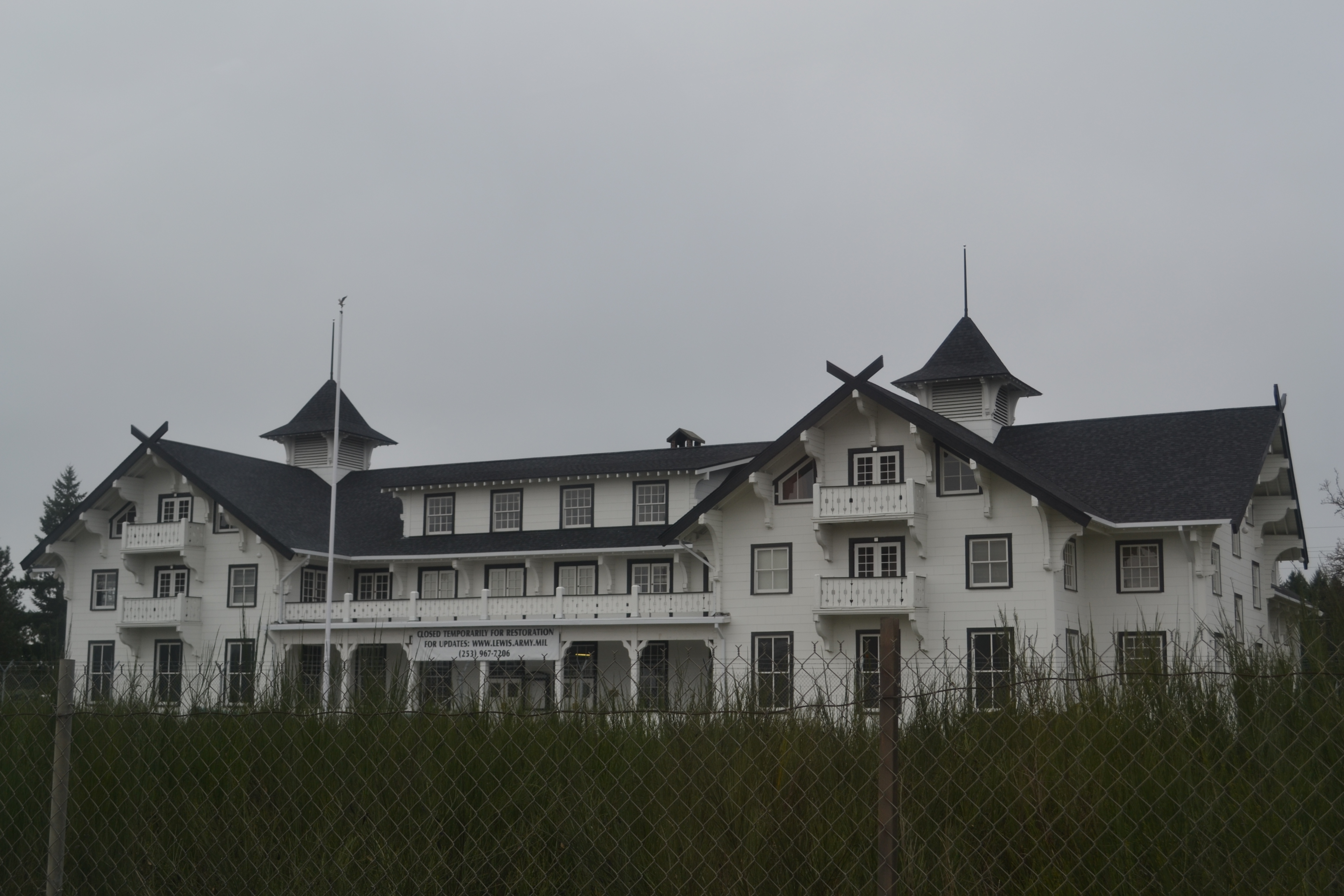 Fort Lewis Museum